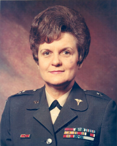 BGEN Anna Mae Hays, US Army